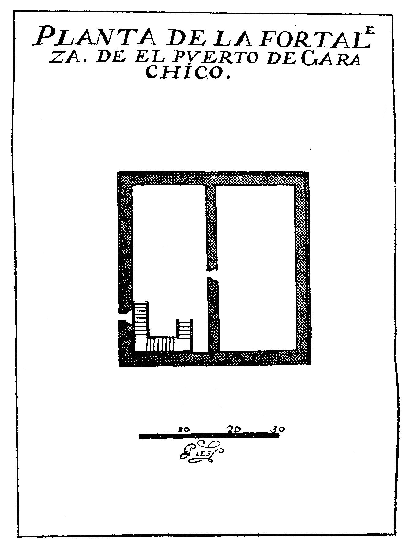 Plant of Garachico Port Fortress 1686